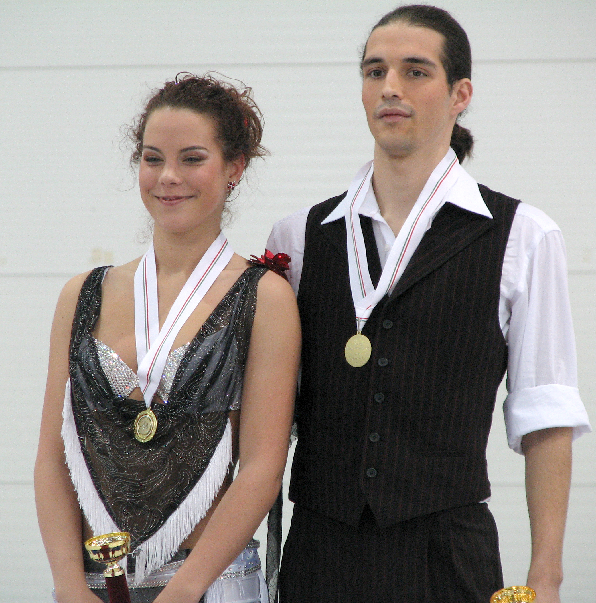 Krisztina Barta and Ádám Tóth, Hungarian ice dancers at the 2007-2008 Hungarian Championship